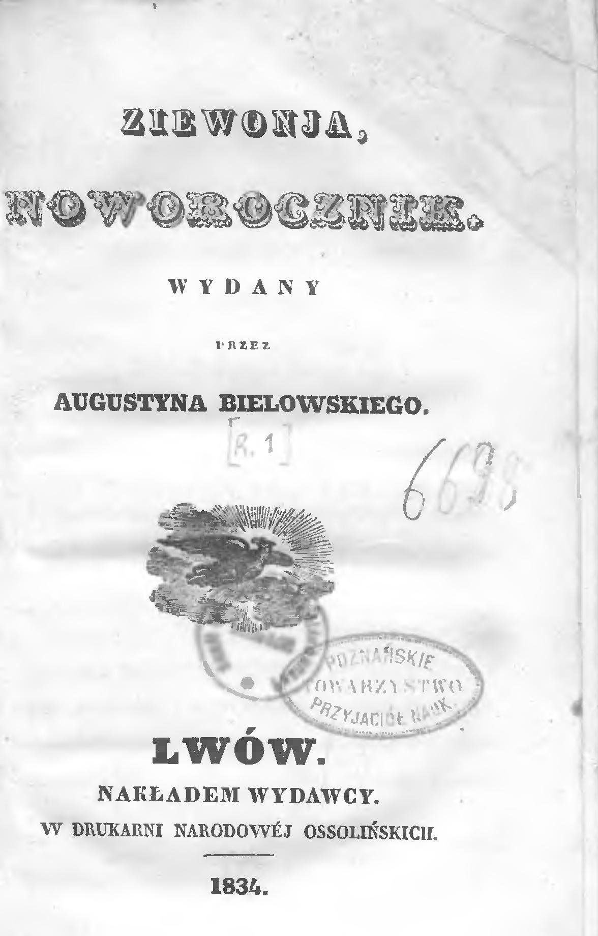 "Ziewonia", cover, 1834, Lviv.